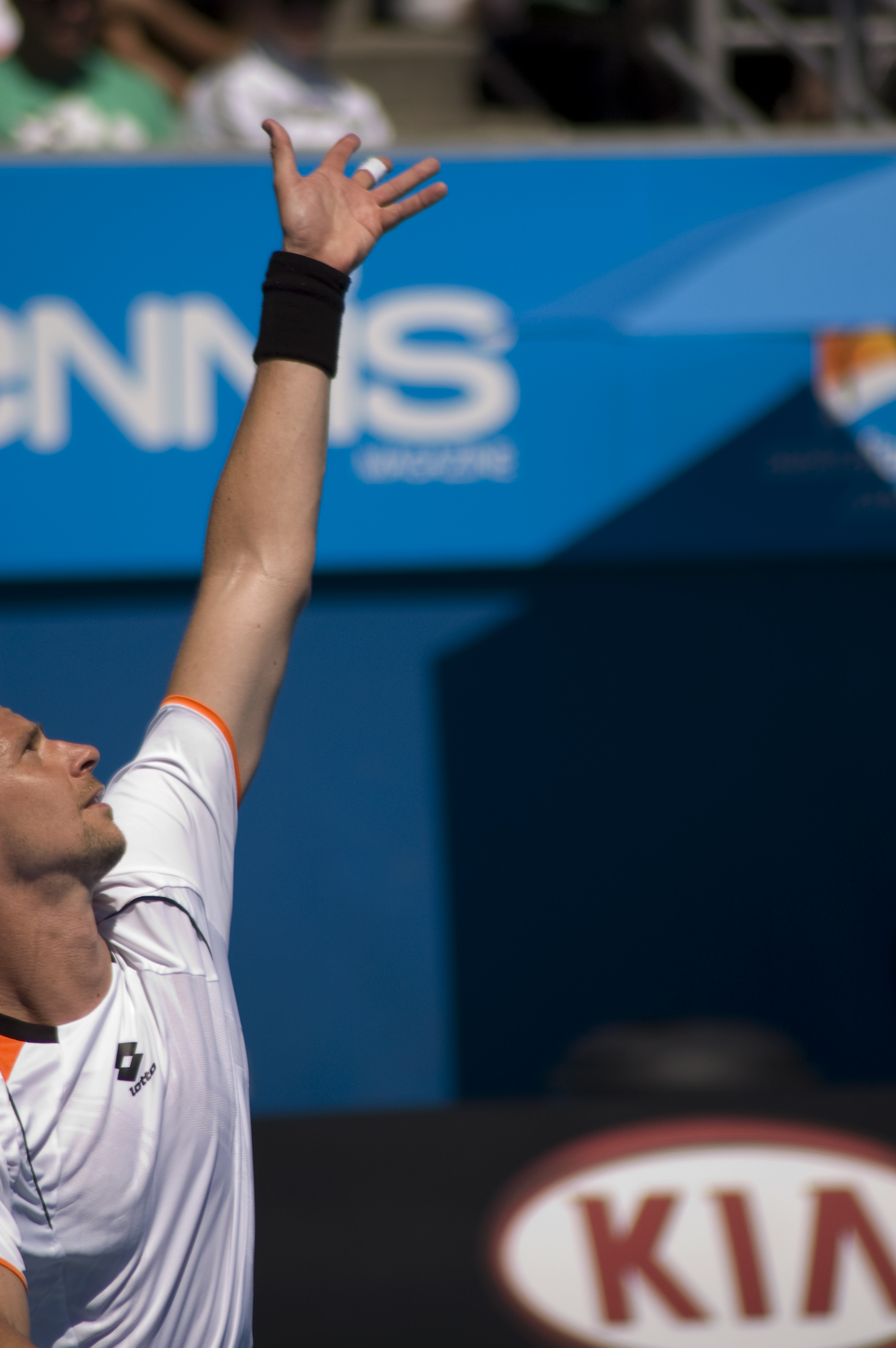 Taken at the Australian Open 2010